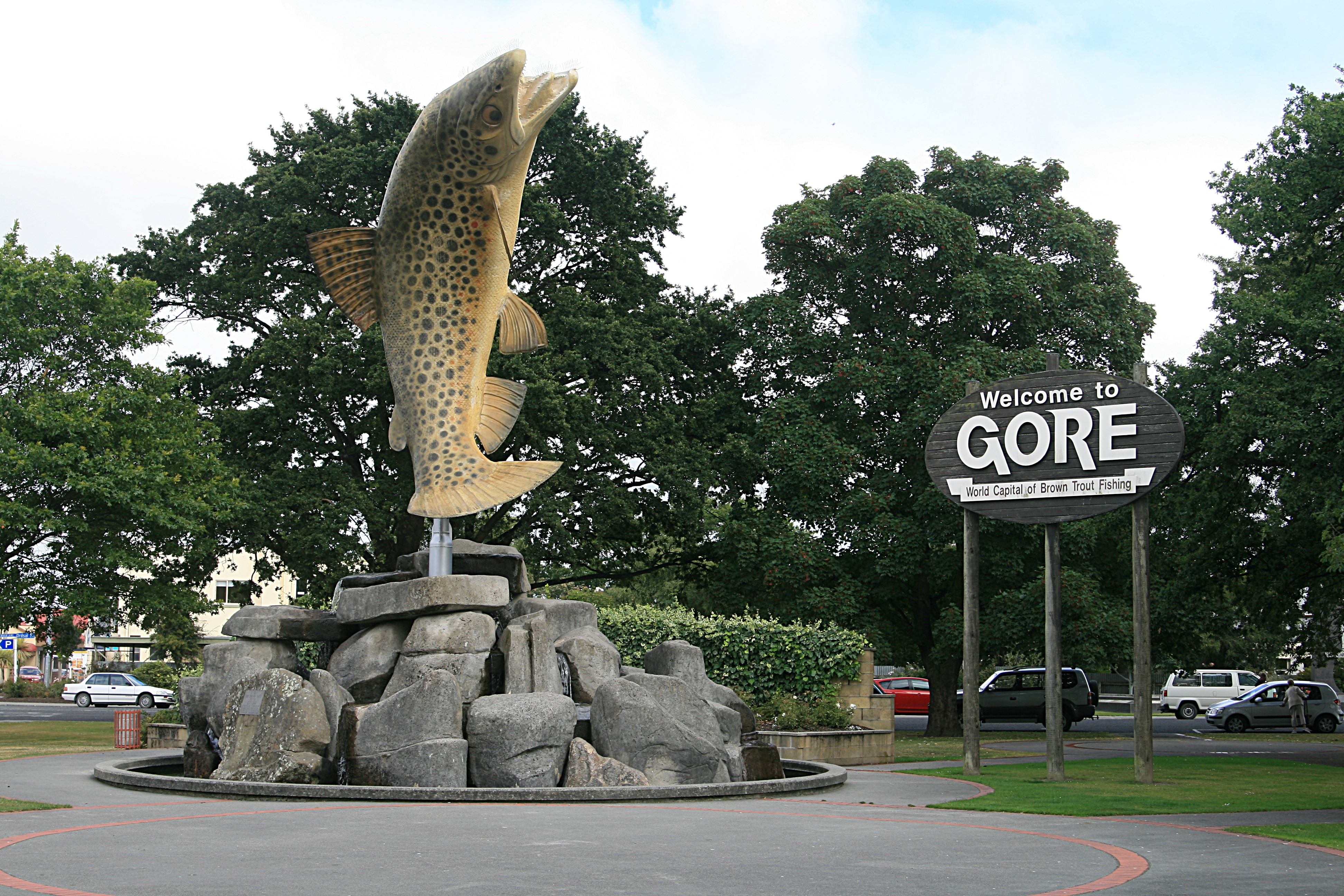 Gore fish statue